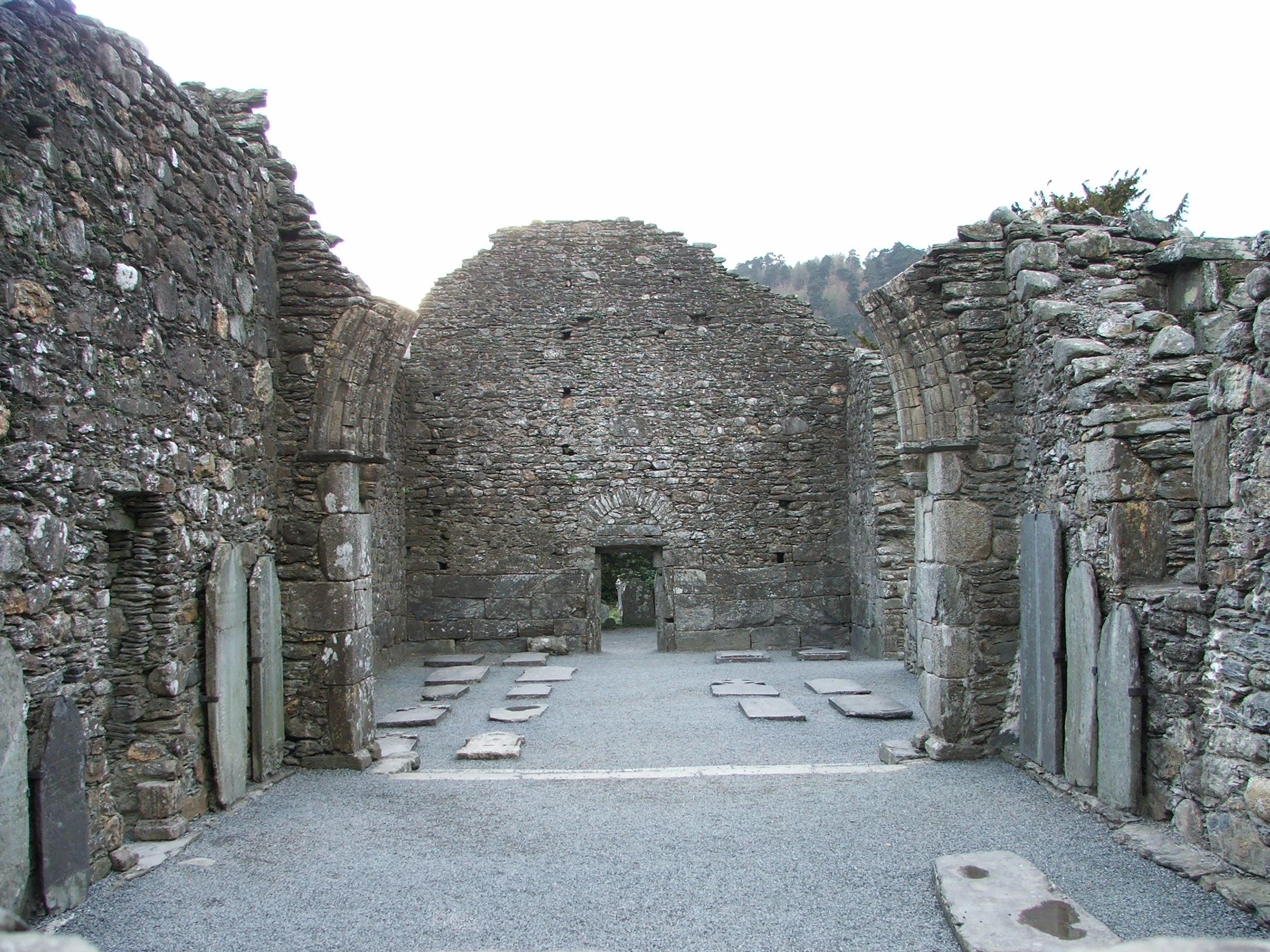 12th century cathedral ruins in Glendalough, Wicklow, Ireland.